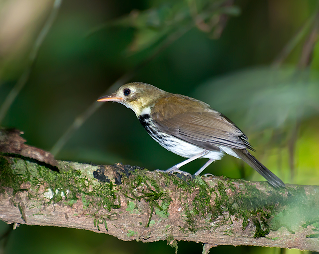 A Southern Antpipit in Piraju, São Paulo, Brazil.